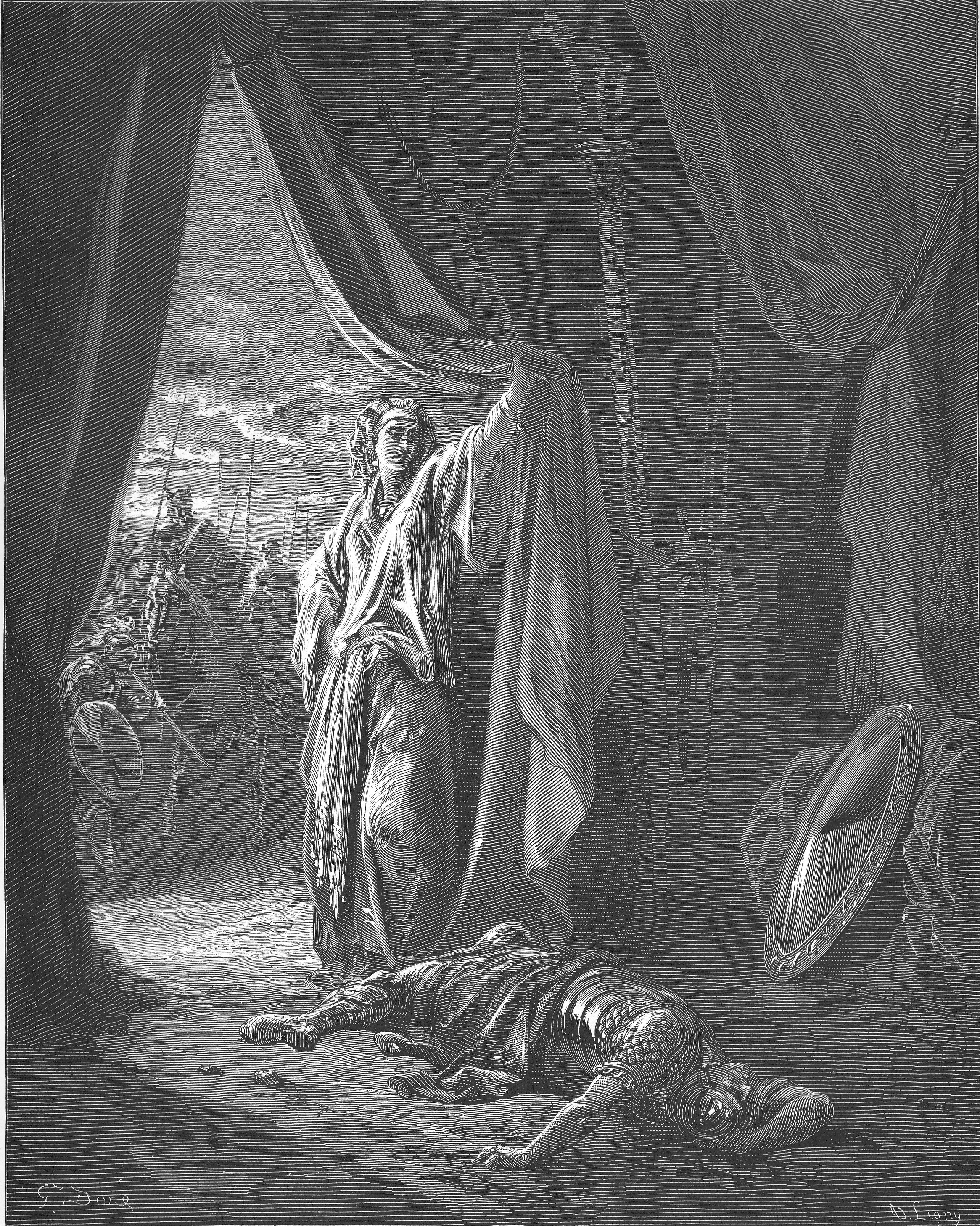 Jael Kills Sisera (Jud. 4:6-22)